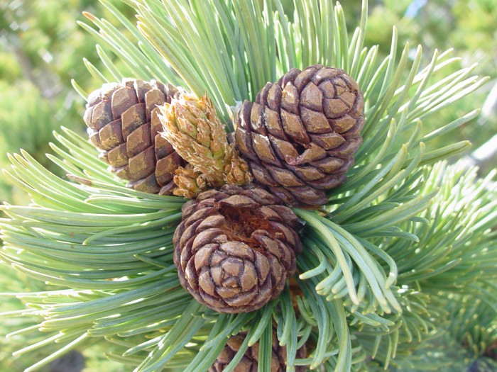 Whitebark Pine Pinus albicaulis one year old cones, Crater Lake National Park, Oregon